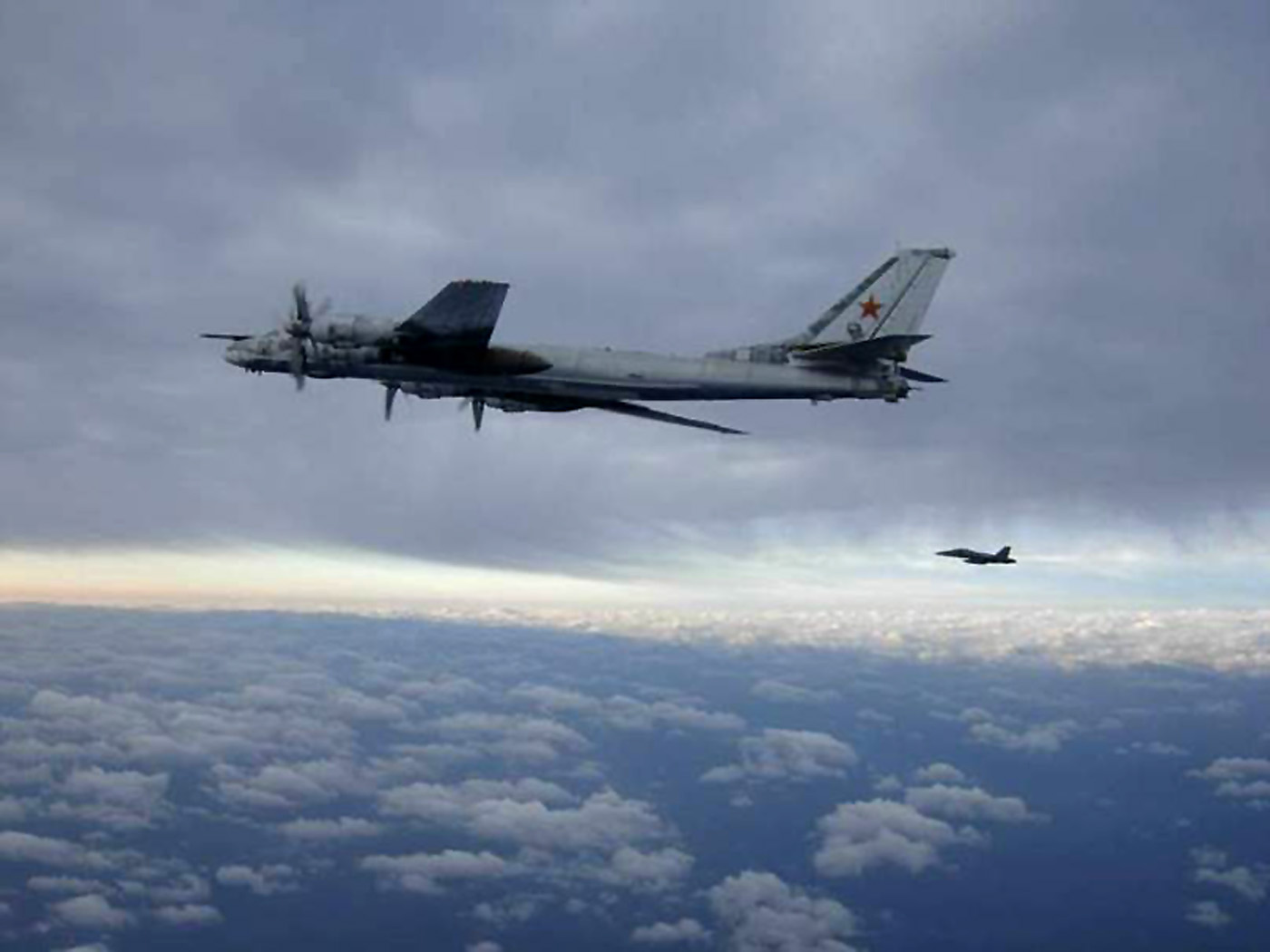 PACIFIC (Feb. 2, 2008) An F/A-18 Hornet from Carrier Air Wing (CVW) 11, embarked aboard the aircraft carrier USS Nimitz (CVN 68) escorts a Russian Tu-95 Bear, long rang bomber aircraft on Feb. 9, 2008 south of Japan. The bomber neared the vicinity of the carrier resulting in the fighter intercept. Nimitz was transiting through the Western Pacific on a regularly scheduled deployment when the incident occurred. U.S. Navy Photo (Released)